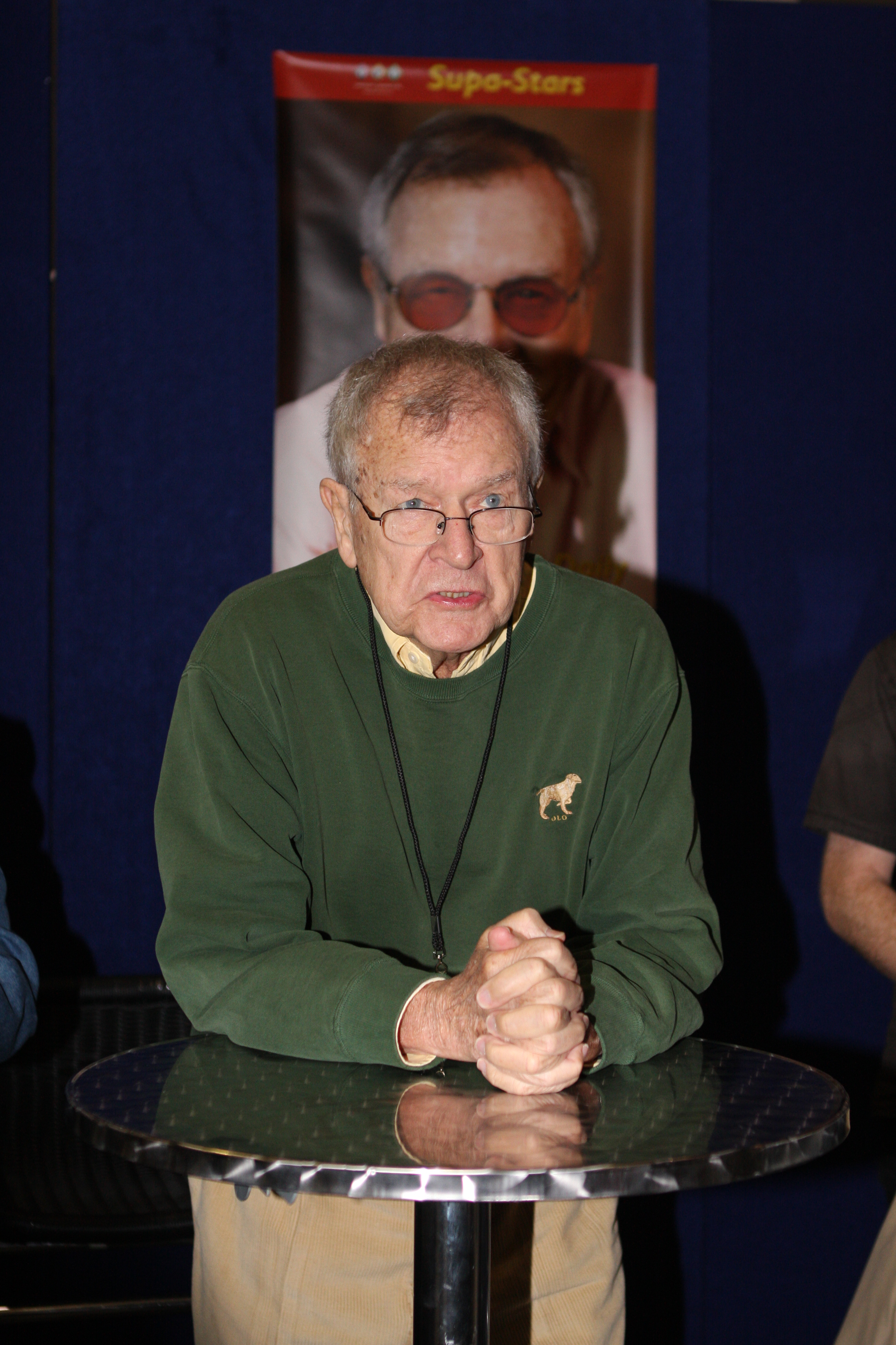 Major Healy Bill Daily at Supanova Pop Culture Expo 2011